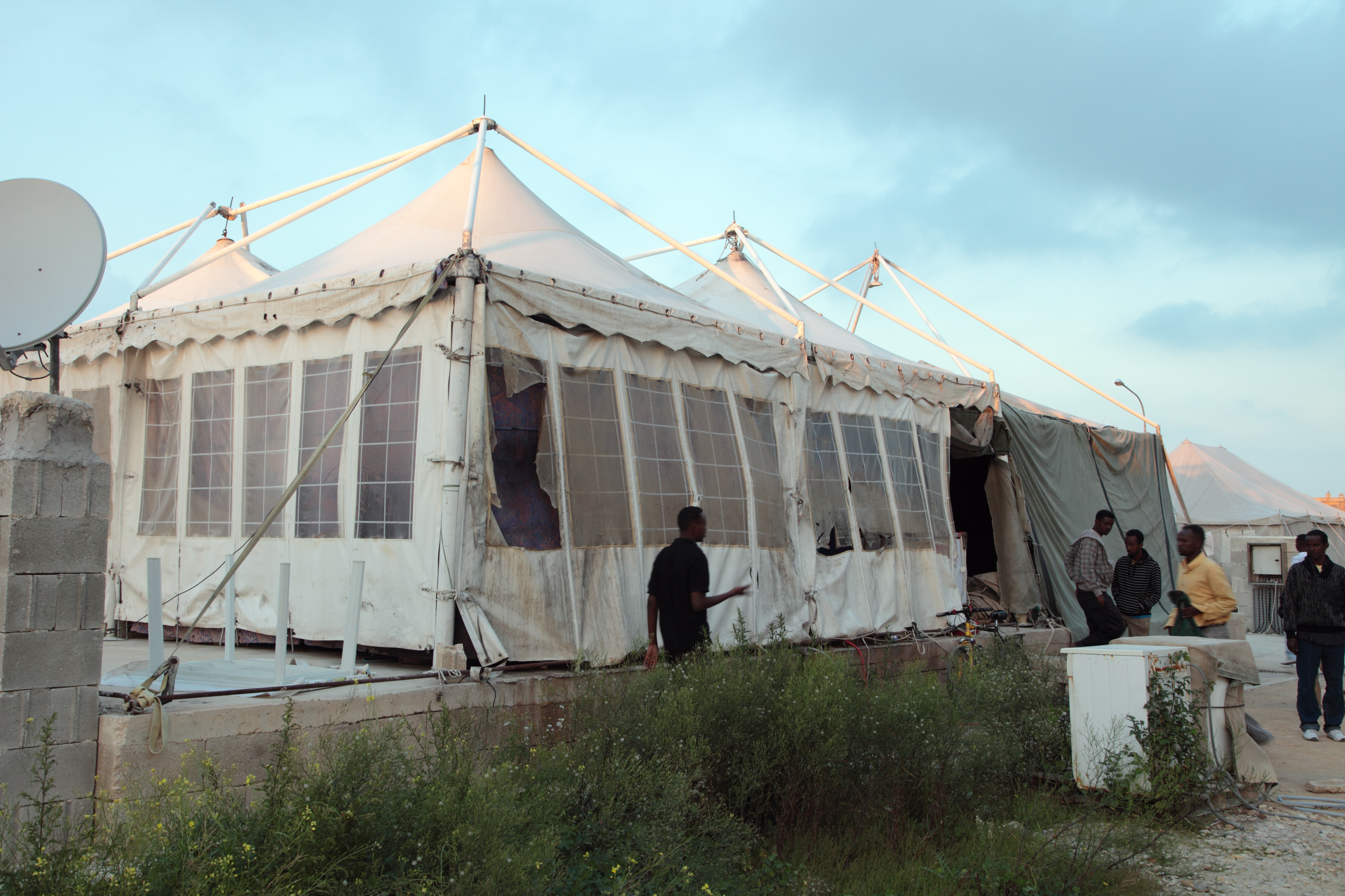 Malta, Hal Far, refugee camp, tent village, community tent